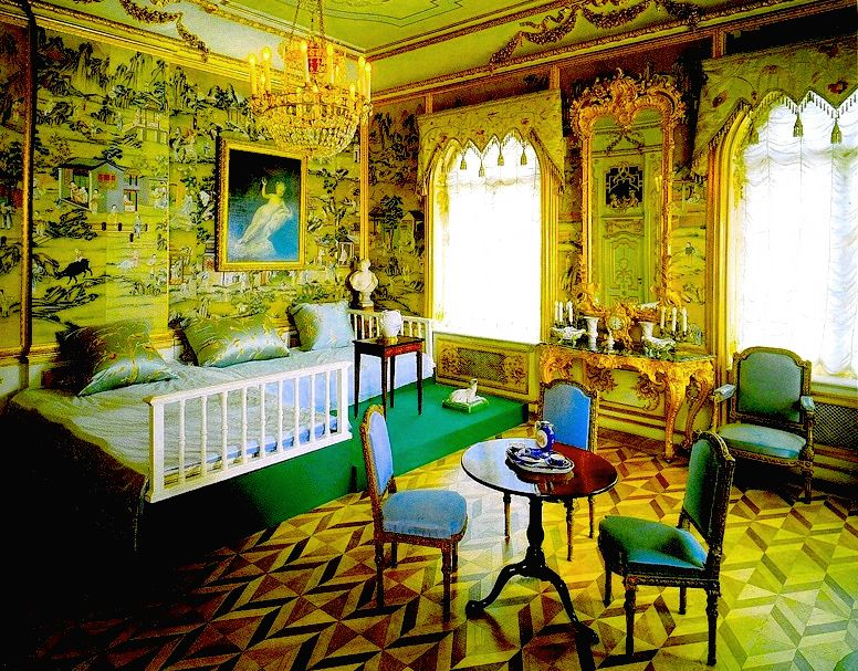 Cushion in Grand Peterhof Palace